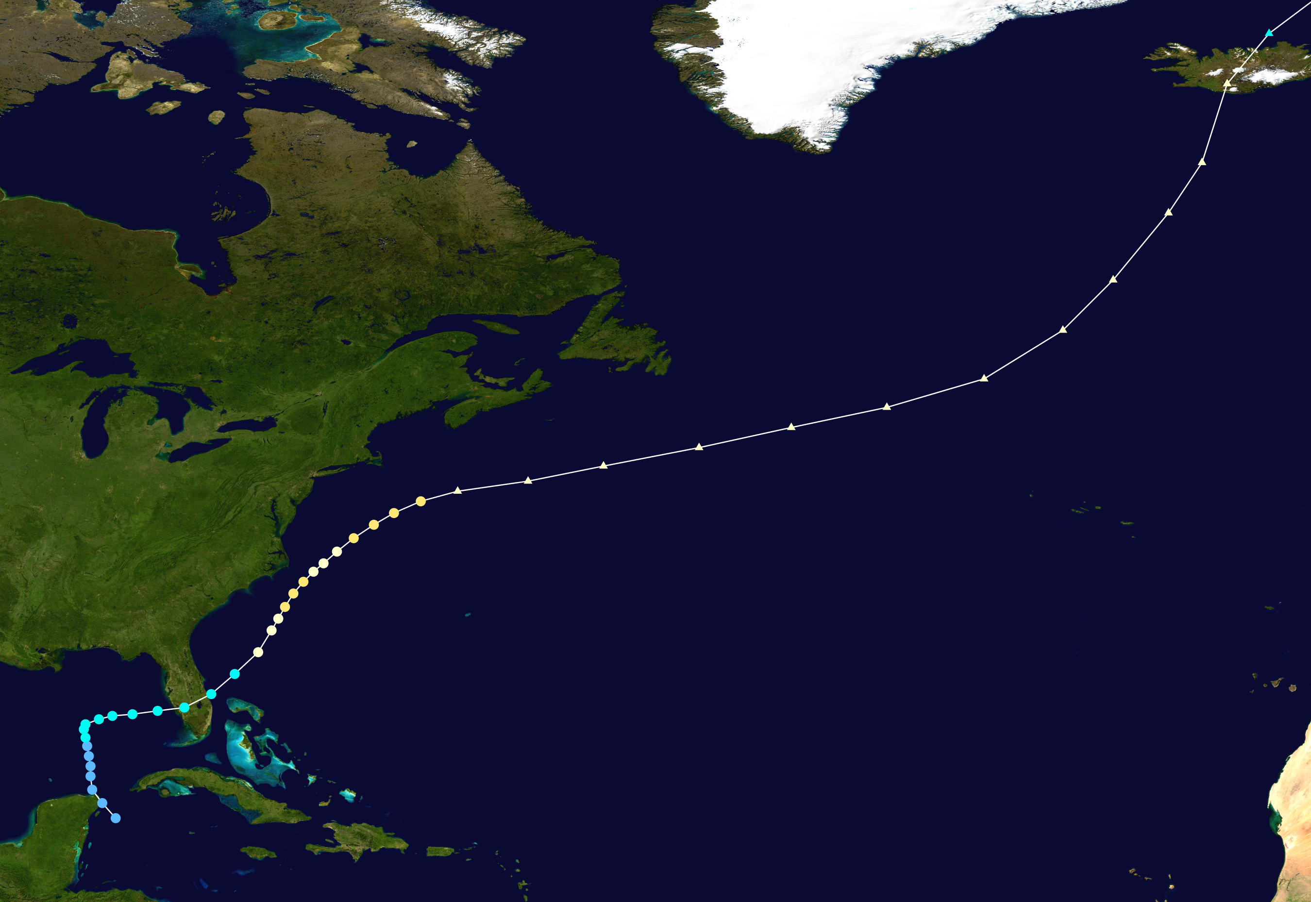 Track map of Hurricane How of the 1951 Atlantic hurricane season. The points show the location of the storm at 6-hour intervals. The colour represents the storm's maximum sustained wind speeds as classified in the Saffir–Simpson scale (see below), and the shape of the data points represent the nature of the storm, according to the legend below. Saffir–Simpson scale Tropical depression≤38 mph≤62 km/h Category 3111–129 mph178–208 km/h Tropical storm39–73 mph63–118 km/h Category 4130–156 mph209–251 km/h Category 174–95 mph119–153 km/h Category 5≥157 mph≥252 km/h Category 296–110 mph154–177 km/h Unknown Storm type Tropical cyclone Subtropical cyclone Extratropical cyclone / Remnant low / Tropical disturbance